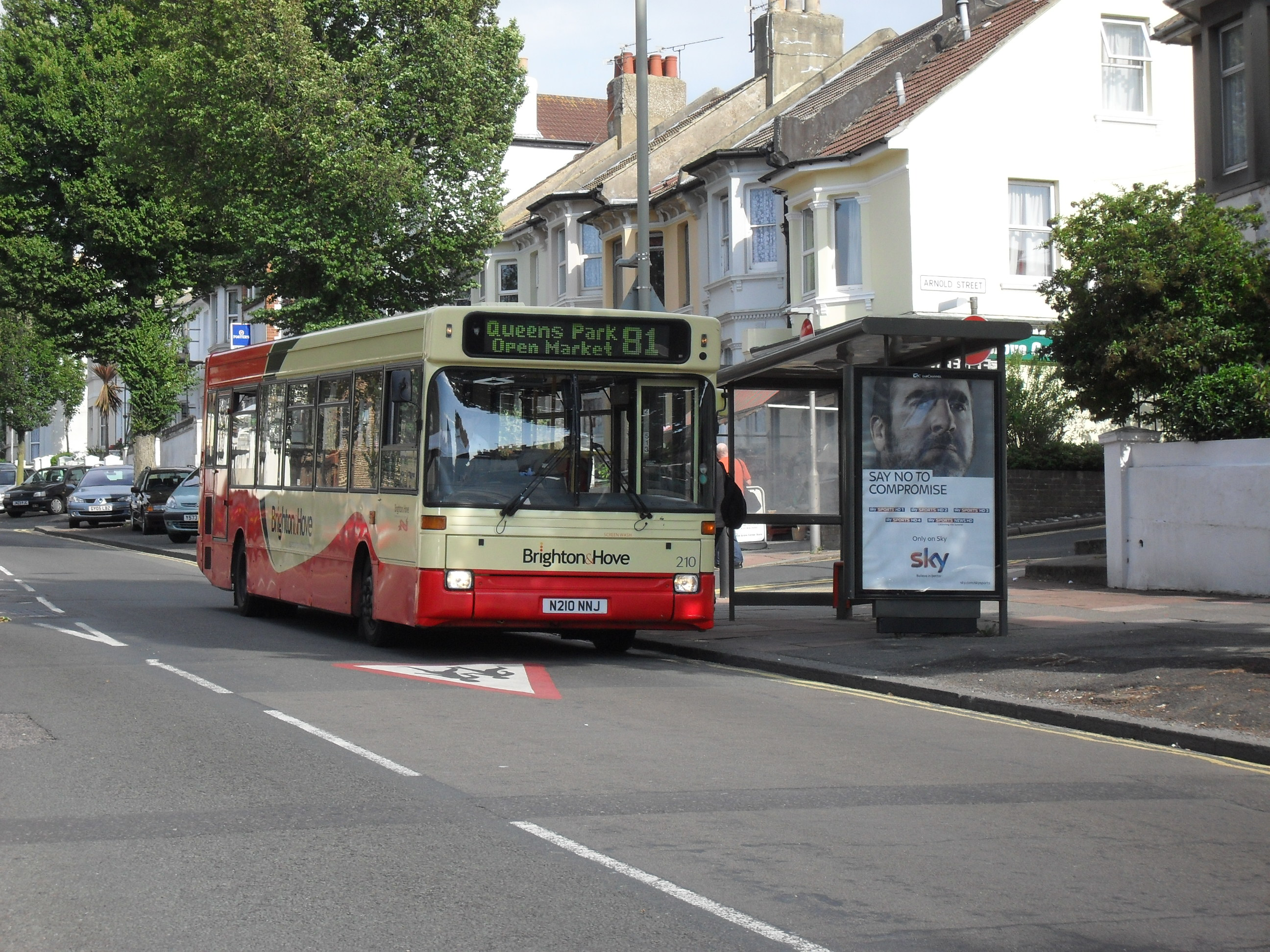 N210 NNJ at Elm Grove, Brighton